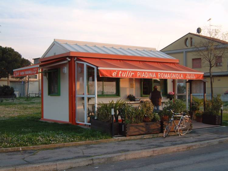 I am the author of this picture taken on april 2007 in Macerone (municipality of Cesena, Emilia-Romagna, Italy).